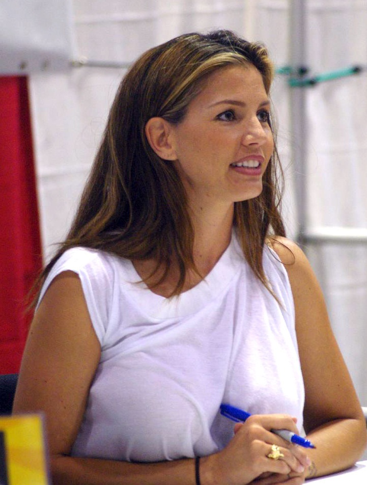 Charisma Carpenter (Cordelia Chase from Angel/Buffy) at the Fan Expo 2007 Convention in Toronto